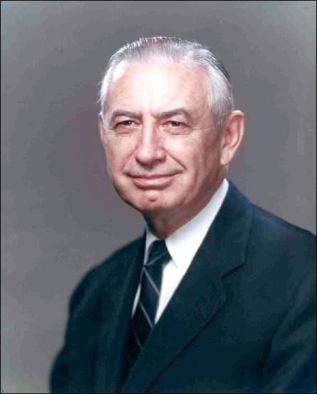 William Randoph Lovelace II (